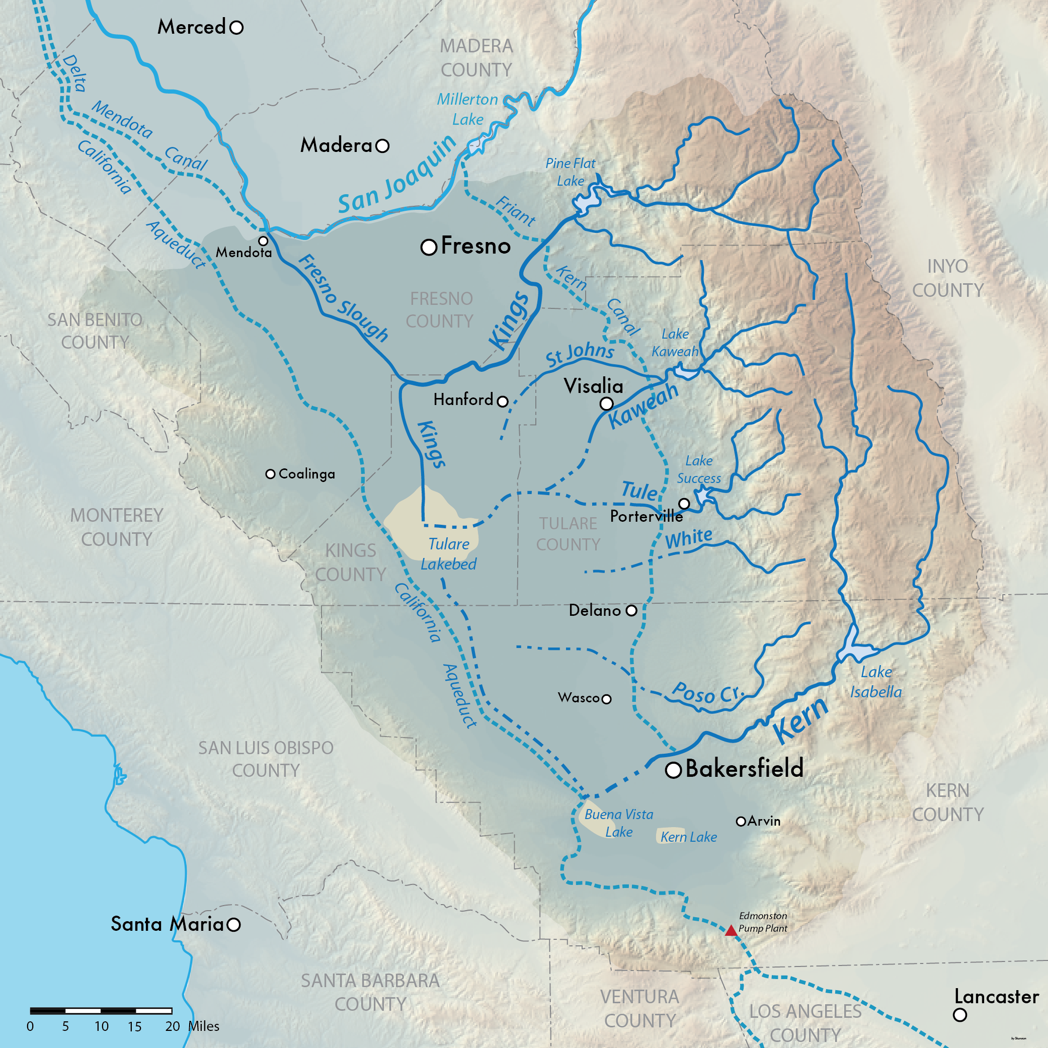 Map showing the Tulare Lake Basin in Central California, USA. Shaded relief data from USGS. Solid blue: Perennial streams Dashed blue: Seasonal streams Dashed light blue: Man-made aqueducts Beige: Dry lake beds